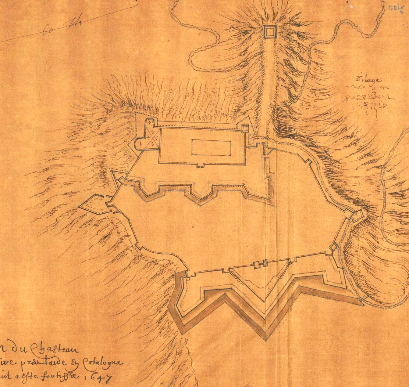 Map of Alguaire Castle (Catalonia)